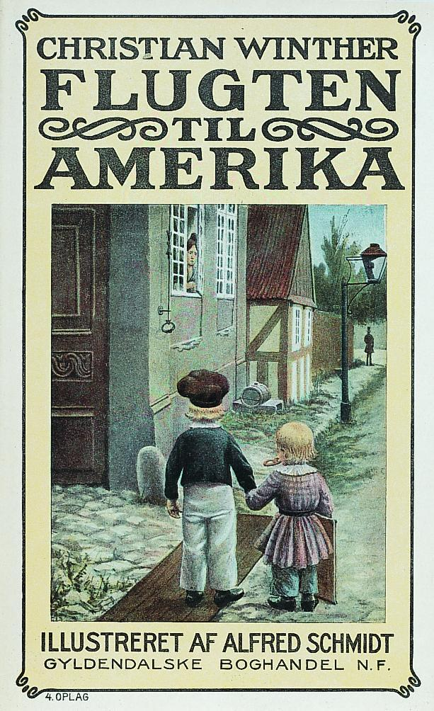 Cover of Christian Winter's Flugten til Amerika, illustrated by Alfred Schmidt.